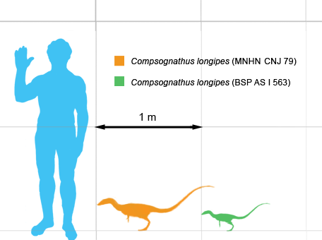 Two specimens of Compsognathus longipes compared in size with each other and to a human.